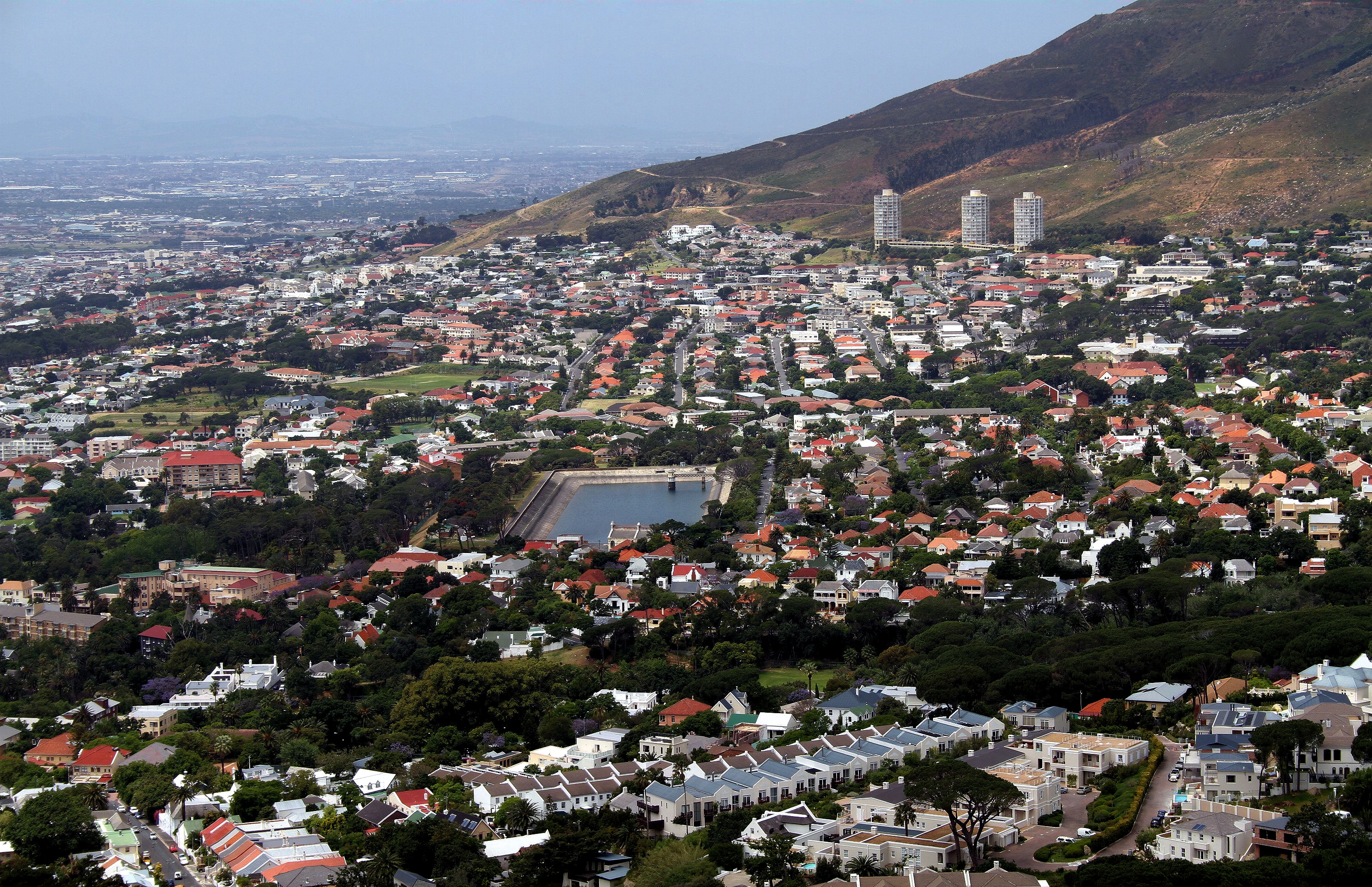 The Cape Town City Bowl as seen from Signal Hill